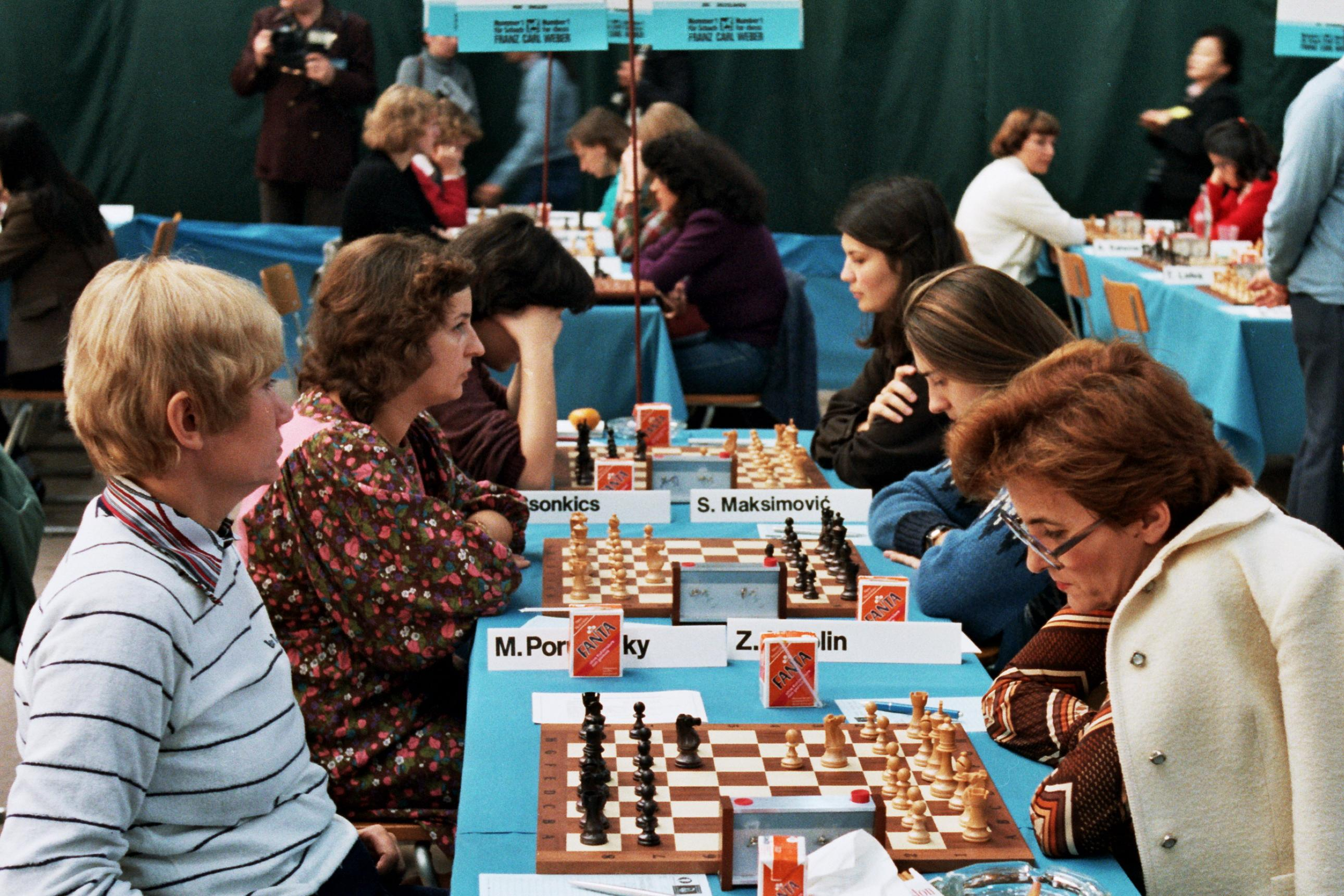 Ungarn - Jugoslawien (Veröci - Lazarevic), Chess Olympiad 1982 in Luzern, Photographer Gerhard Hund.